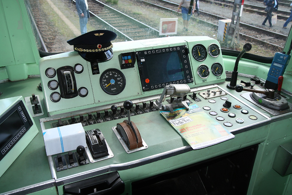 Driver's cab on a DB class 420 multiple unit.